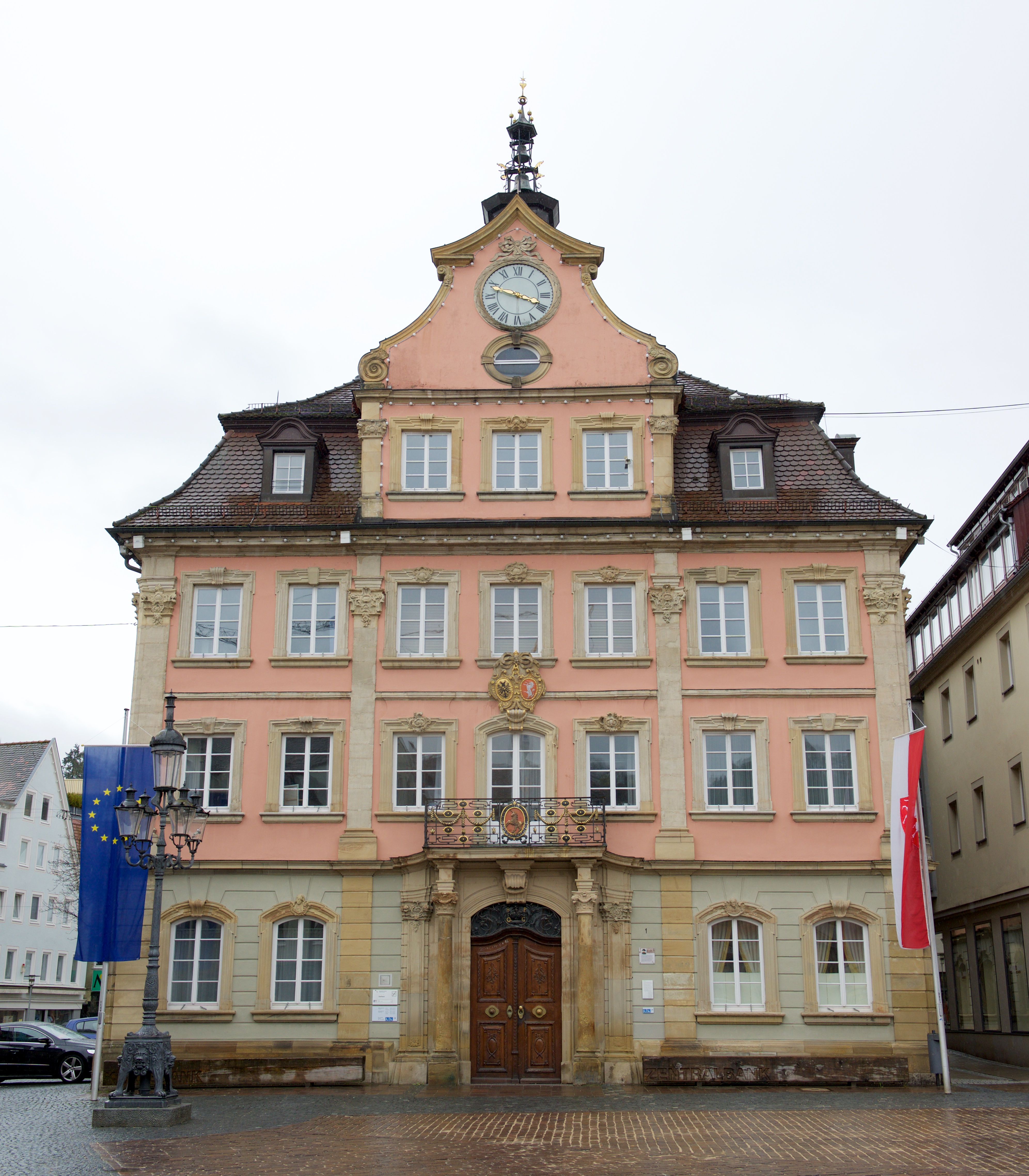 Rathaus Schwäbisch Gmünd